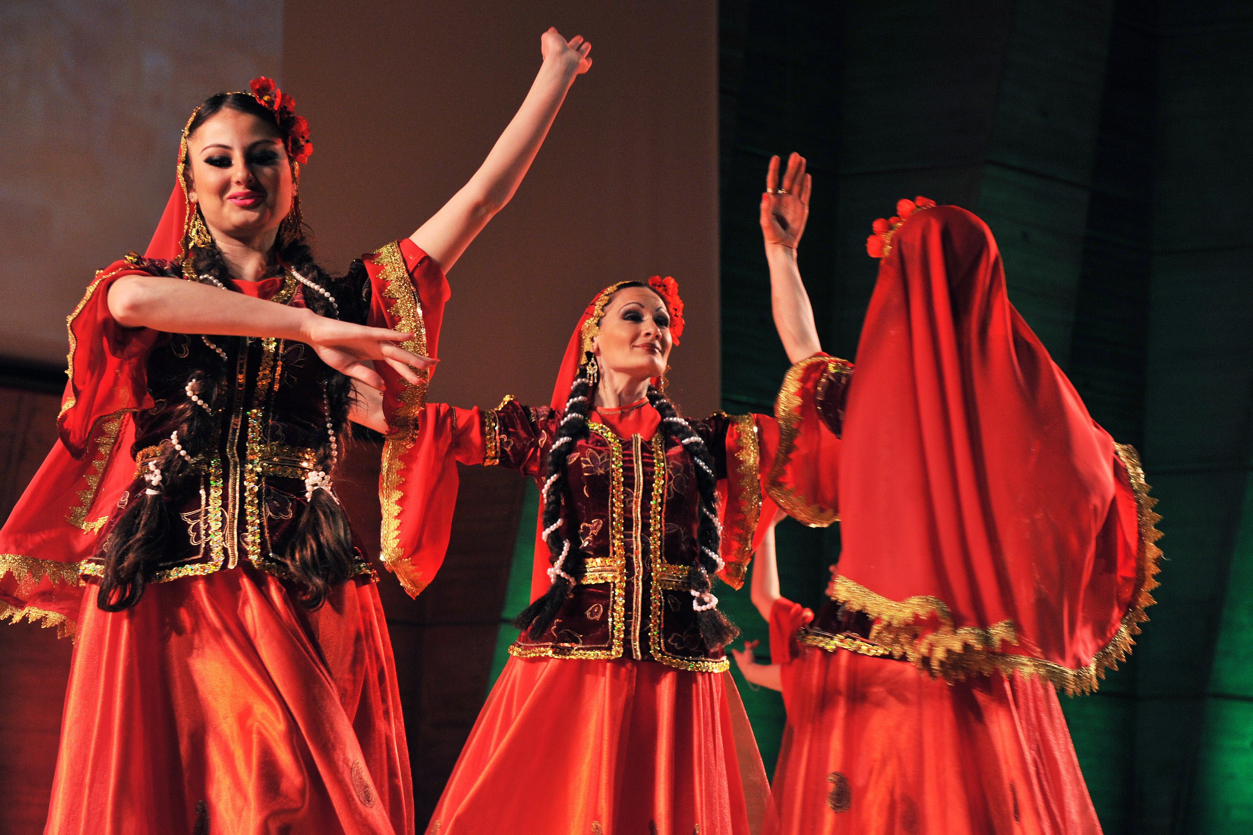 Celebration of Nowruz shared by several countries: Afghanistan, Azerbaijan,Iran (It`s a new year holiday and the biggest one for Iranian and Nowruz means New Day in Iran) , Russian Federation, Kazakhstan, Uzbekistan,Turkmenistan, Tajikistan and Turkey. UNESCO Headquarters, ParisRomână: Celebrarea Nowruz de către câteva țări: Afganistan, Azerbaidjan, Iran (Nowruz înseamnă Anul Nou în iraniană), Federația Rusă, Kazahstan, Uzbekistan, Turkmenistan, Tadjikistan și Turcia. Sediul UNESCO, Paris.